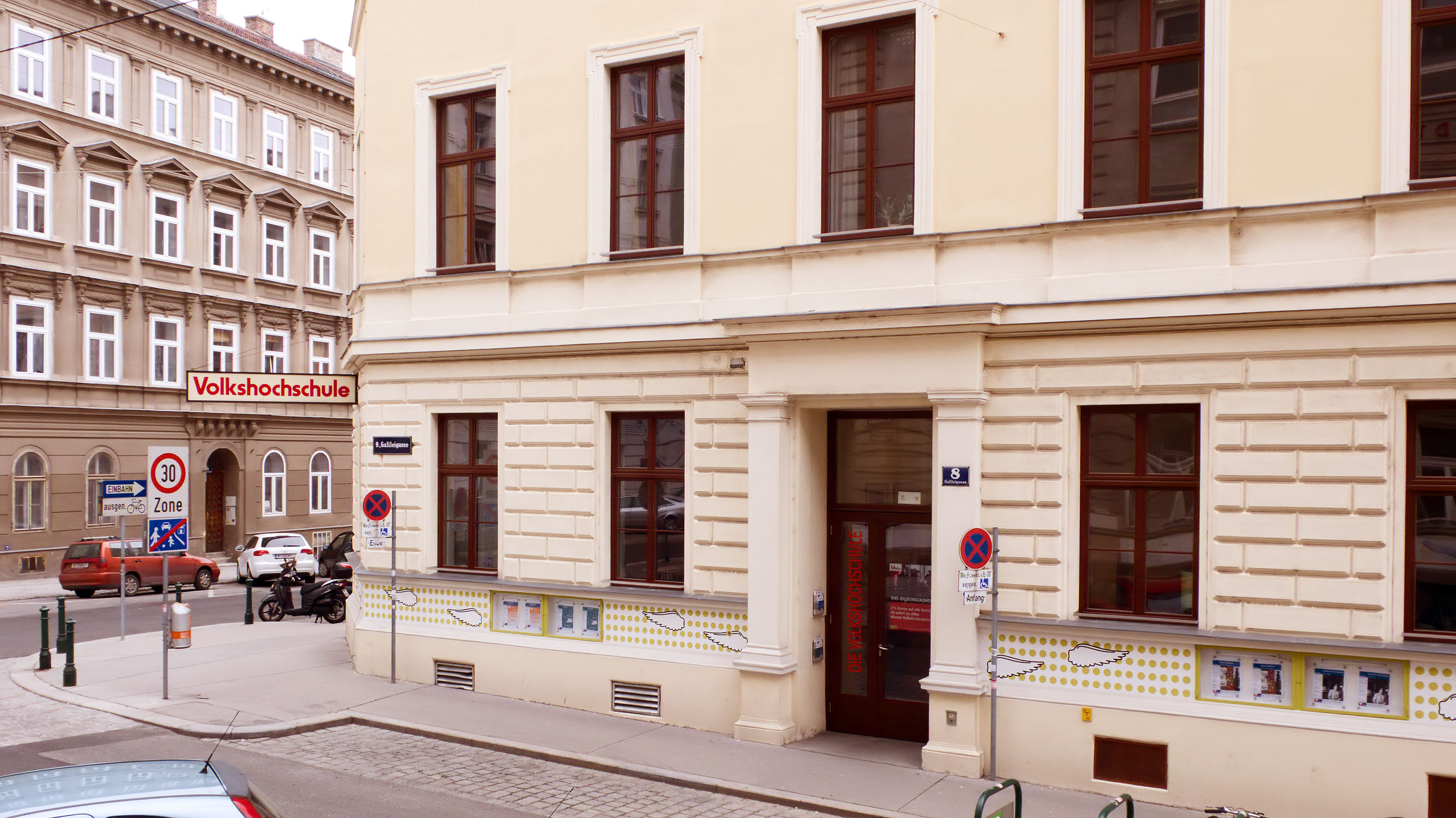 Volkshochschule Wien Nordwest in Vienna Alsergrund